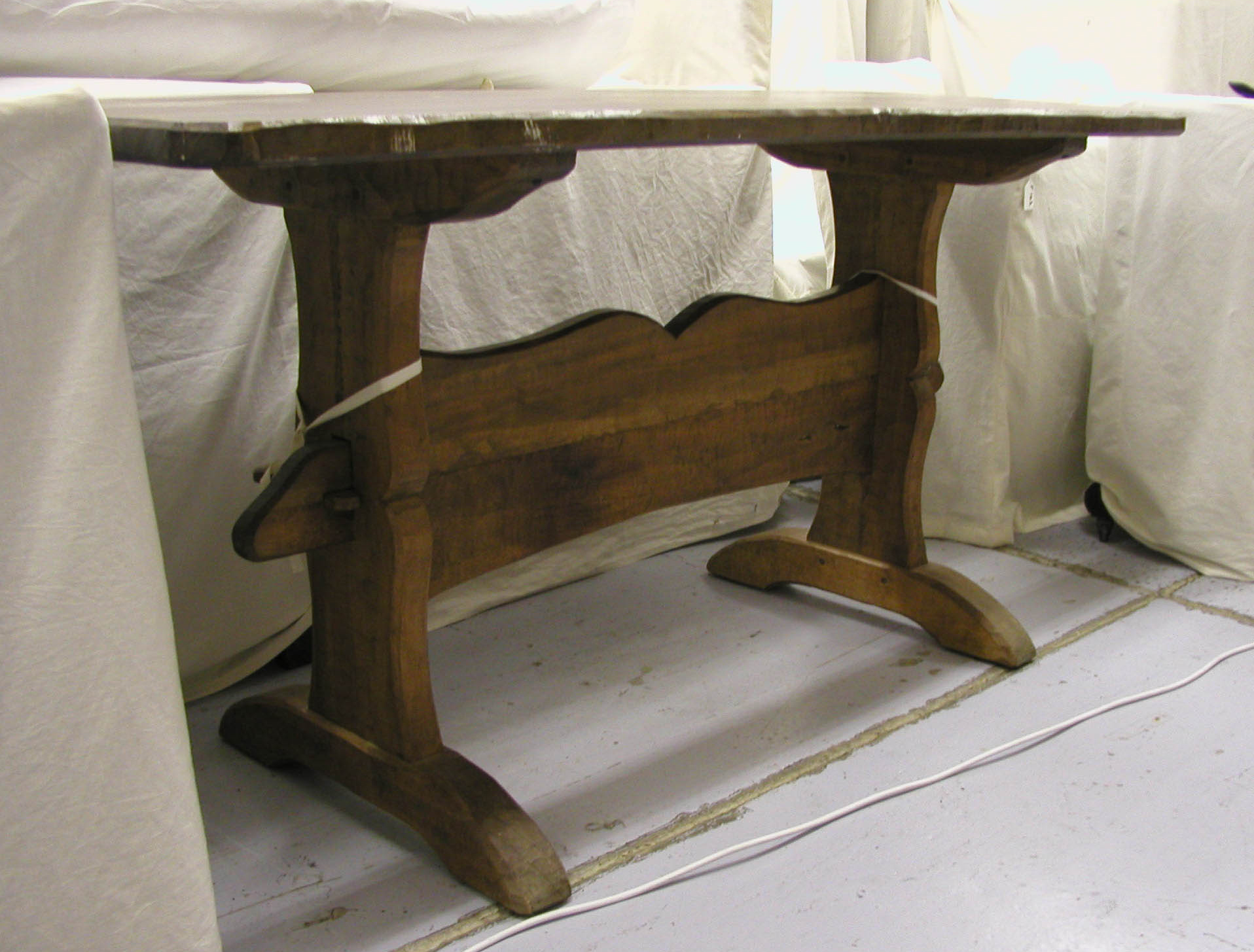 Table, refectory type, pegged construction, all surfaces except table top finely adzed.